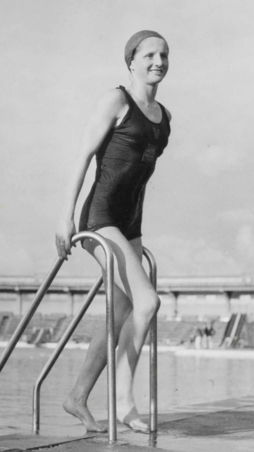 Catherine Gibson, Daily Herald Archive at the National Media Museum